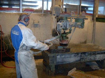 A stonemason polishing stone